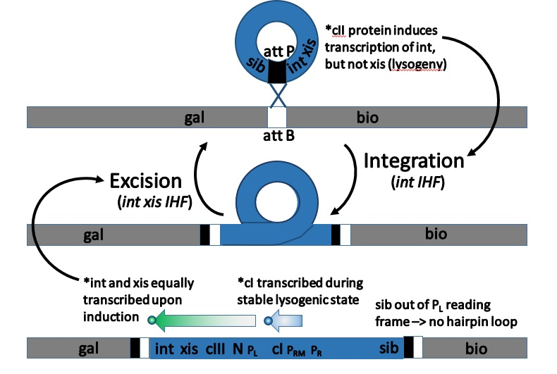 Basic visual overview of the phage lambda processes of host integration and excision.